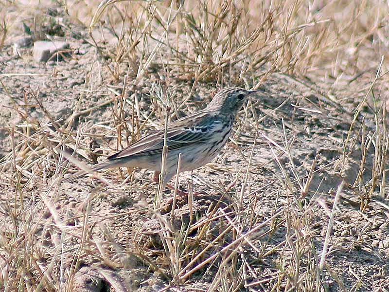 Tree Pipit Anthus trivialis at Hodal in Faridabad District of Haryana, India.